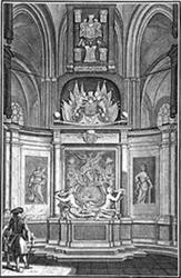 The monument of Michiel de Ruyter. Interior of Nieuwe Kerk (Amsterdam).